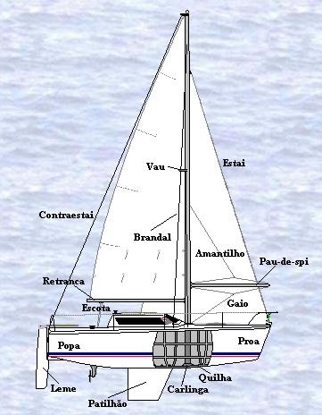 Schematic drawing of a sailboat, side view